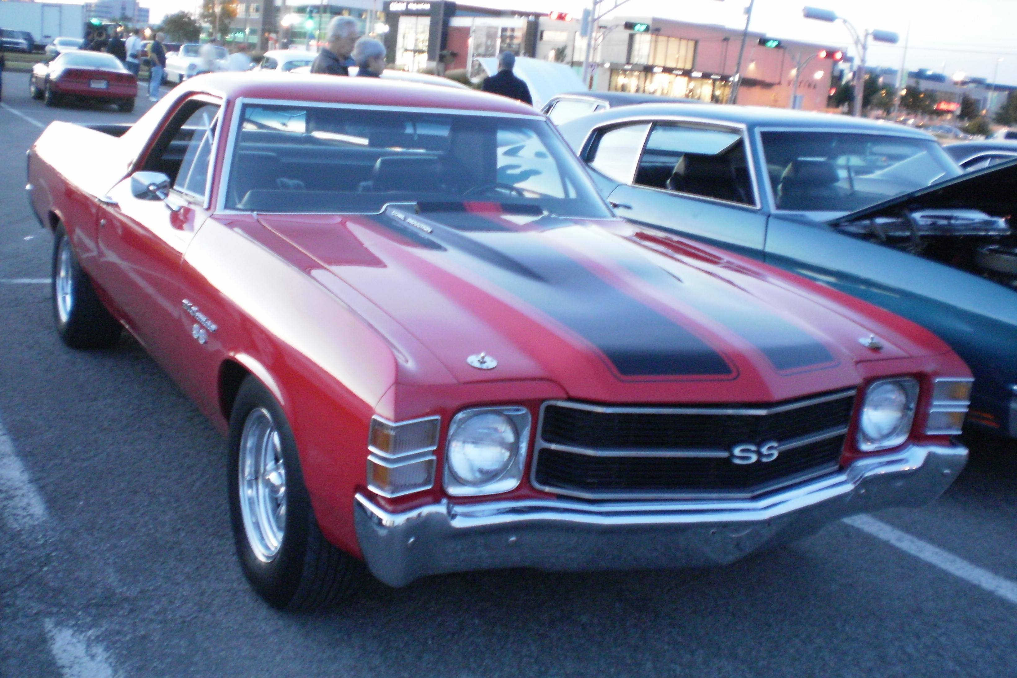 1971 Chevrolet El Camino photographed in Laval, Quebec, Canada at Les chauds vendredis.